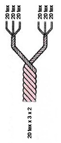 Thread made from two threads, each of them consists of three single yarns.